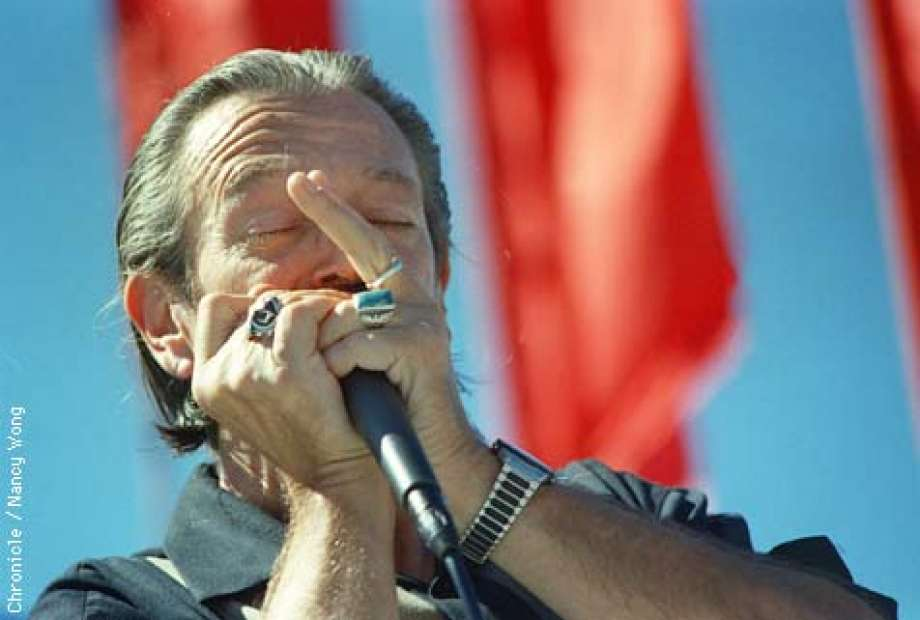 CHARLIE MUSSELWHITE IS MASTER OF THE BLUES HARMONICA AT THE 25TH ANNUAL SAN FRANCISCO BLUES FESTIVAL AT THE GREAT MEADOW, FORT MASON.. Photo by Nancy Wong, Special to the San Francisco Chronicle, 1997